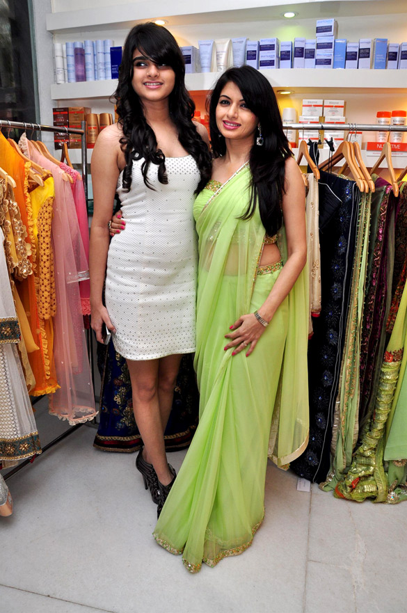 Avantika, Bhagyashree unveil her latest summer couture collection